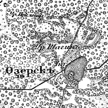 Ozersk on the map "Военно-топографическая карта Российской Империи" (known as "Schubert's map"), XX 5, 1866-1887 (issued in 1913).